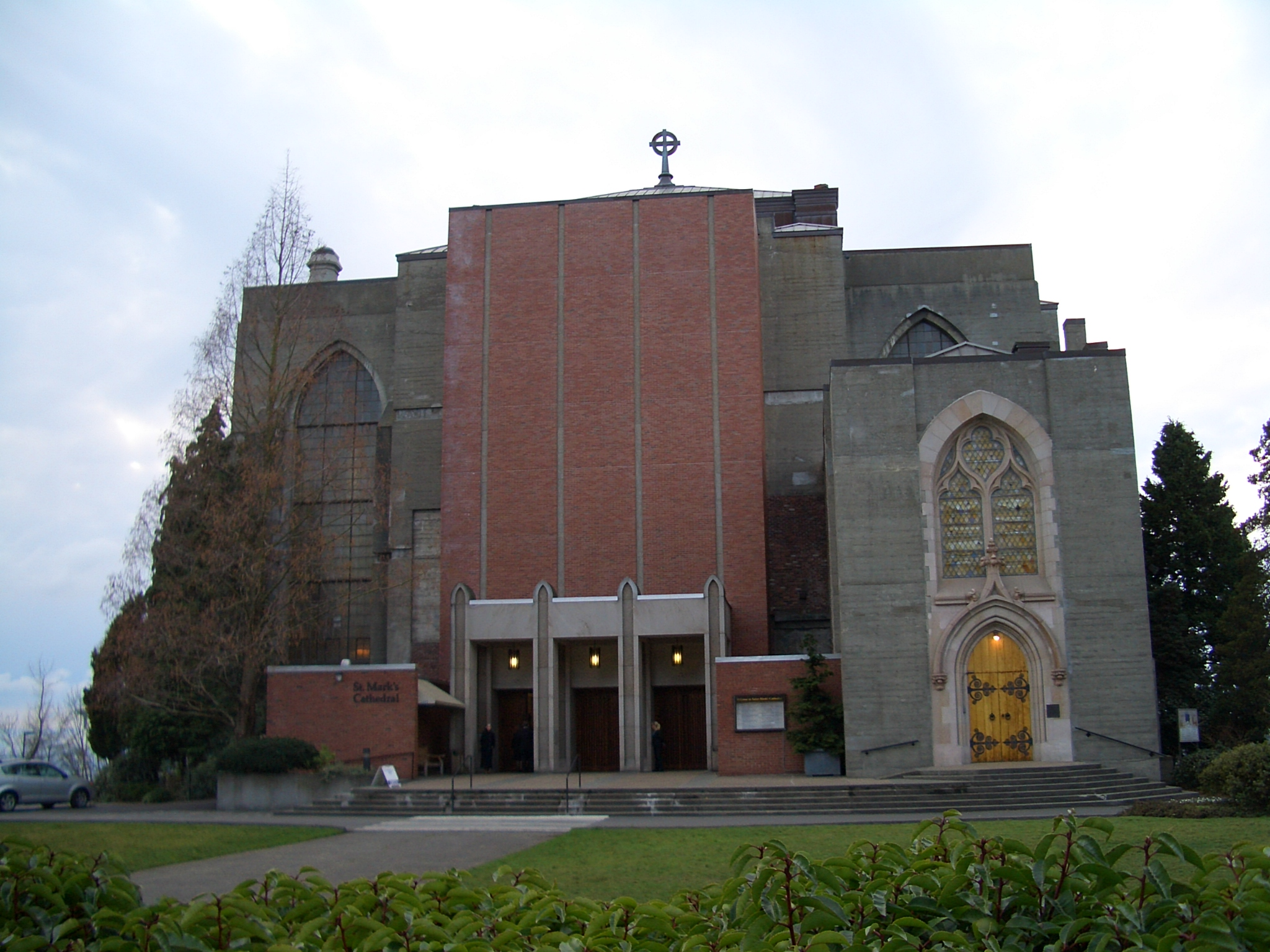 St. Mark's Episcopal Cathedral, Seattle. View from the east (the main entry).